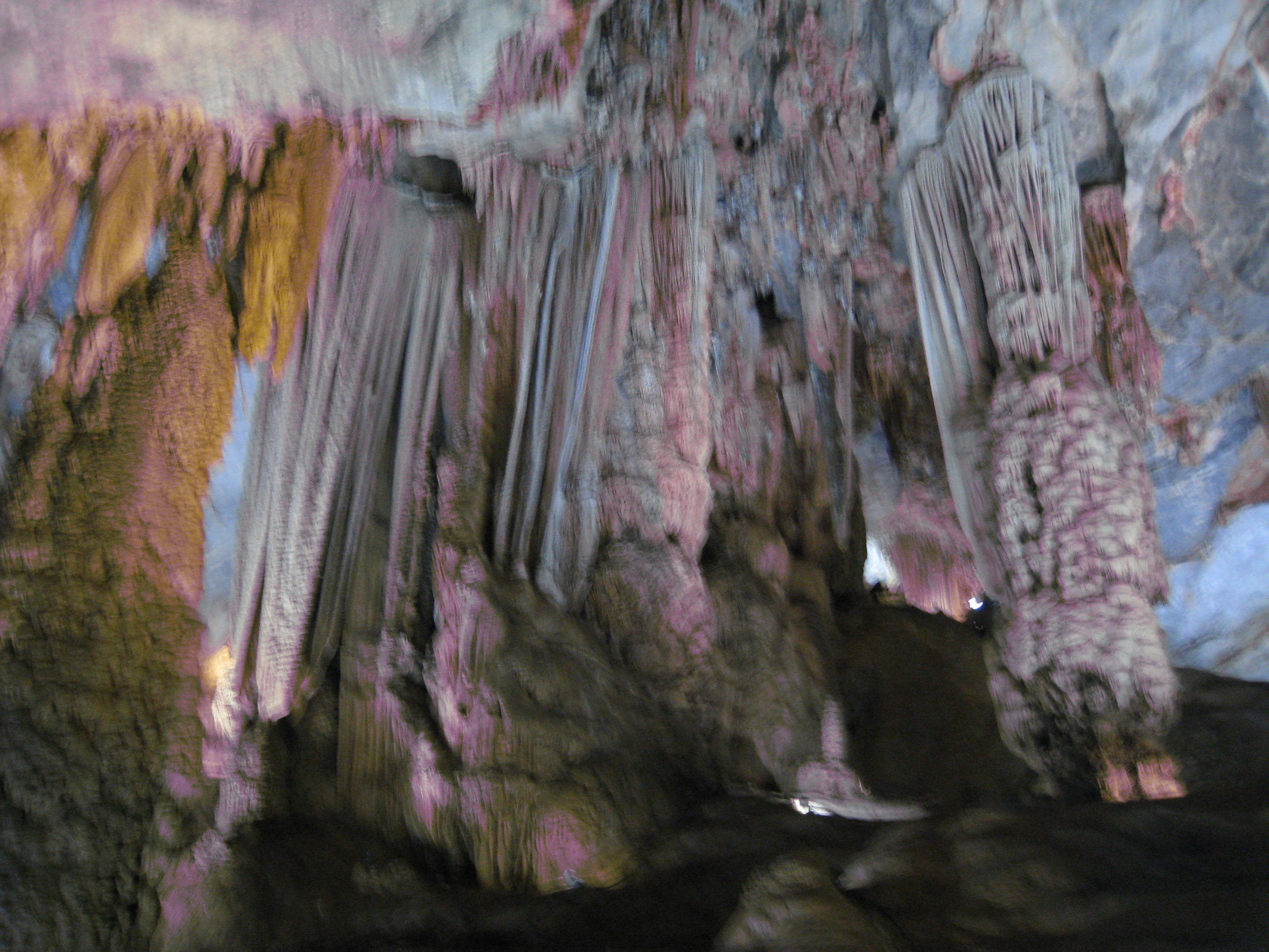 Thien Duong Cave in Phong Nha-Ke Bang, Vietnam